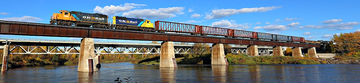 Ontario Northland train crosses the Missinaibi River at Mattice-Val Côté, Ontario.